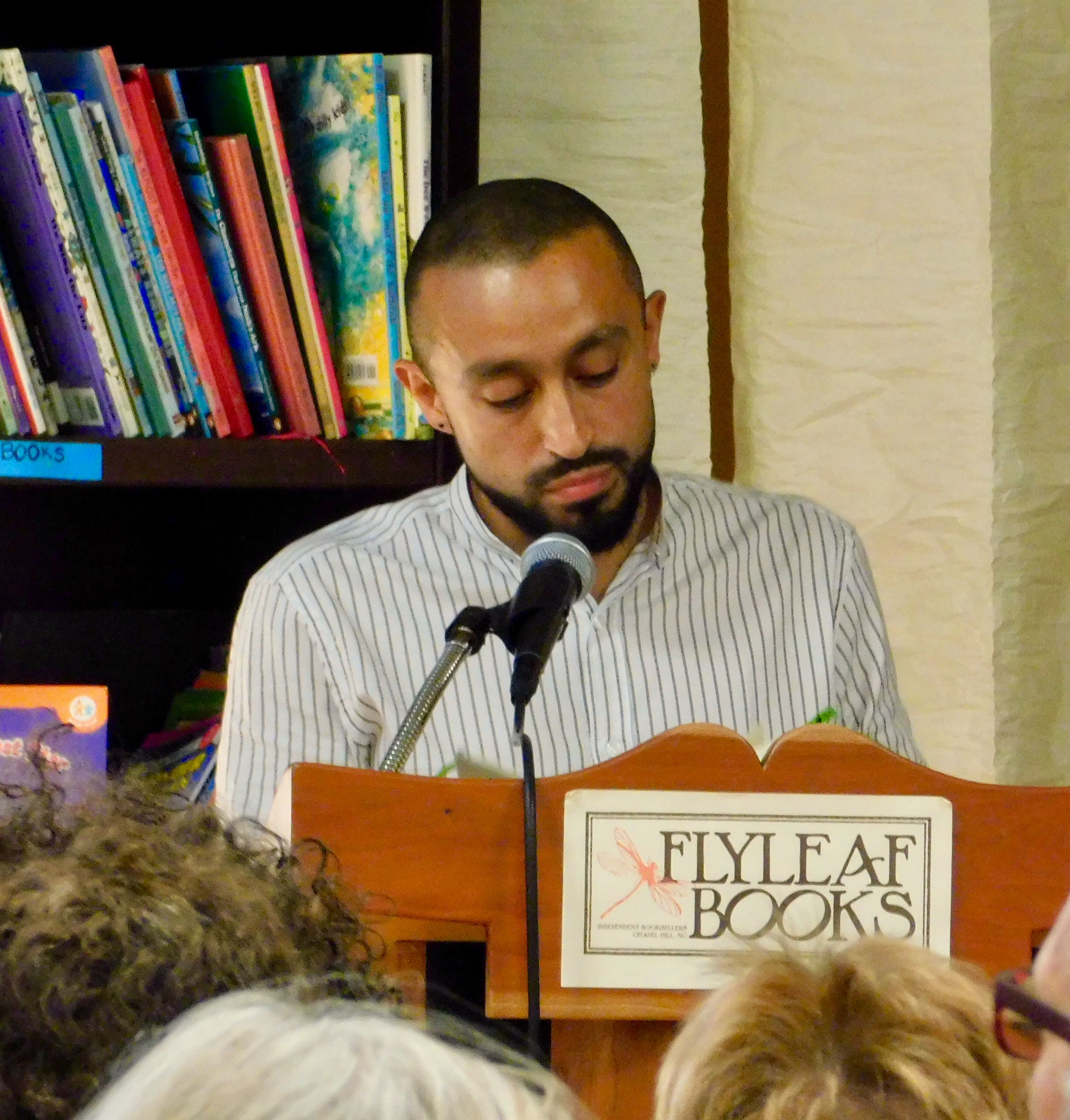 Francisco Laguna Correa reading at Flyleaf Books, Chapel Hill, June 2018.